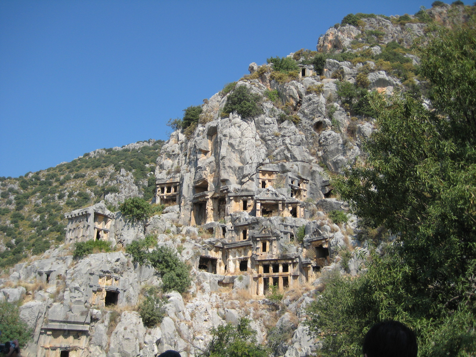 Tombes Rupestes